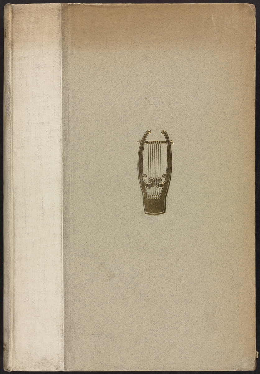 File name: 06_04_000181Title: FIELDS(1900) OrpheusDate issued: 1900Genre: Book coversNotes: Fields, Annie, 1834-1915 (Author)Collection: Sarah Wyman Whitman BindingsLocation: Boston Public Library, Special CollectionsRights: No known copyright restrictions.